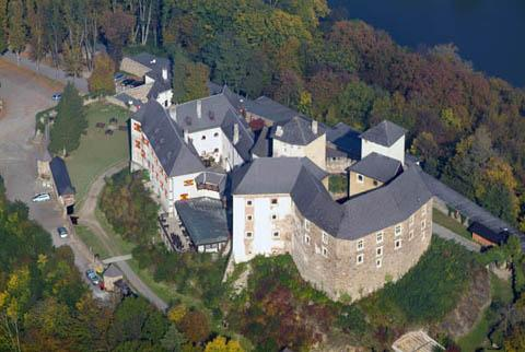 Lockenhaus, Germany, aerialphotography